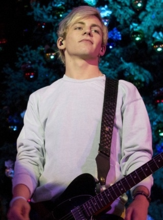 Ross Lynch along with R5 performing at the Citadel's 12th Annual Christmas Tree Lighting, Los Angeles, CA on November 9th, 2013.